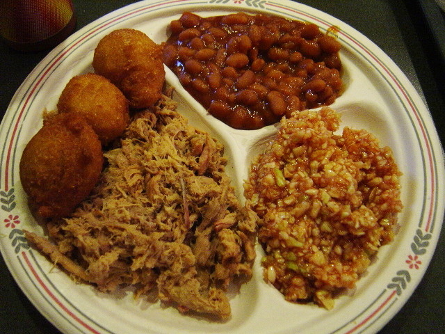 Lexington style North Carolina barbecue served with hushpuppies, baked beans and red cole slaw. Lexington style North Carolina barbecue uses a vinegar and ketchup type sauce, and uses only the pork shoulder, which is darker meat, thus more moist. A hushpuppy (or cornbread ball) is a savory, starch-based food made from cornmeal batter that is deep fried or baked in small ball or sphere shapes, or occasionally oblong shapes. Lexington barbecue is also served with red slaw, a type of coleslaw that uses this barbecue sauce (locally called "dip") instead of mayonnaise. Recipes vary widely for red slaw, which is different from traditional coleslaw in that it does not use mayonnaise as an ingredient, allowing it to be stored for longer periods without refrigeration and making it more suitable for outdoor serving. It is made with green cabbage, vinegar and ketchup, giving it the characteristic color.